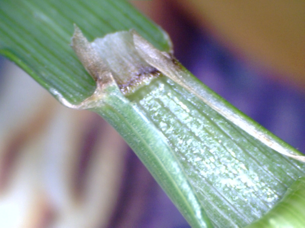 Crested dogstail grass ligule